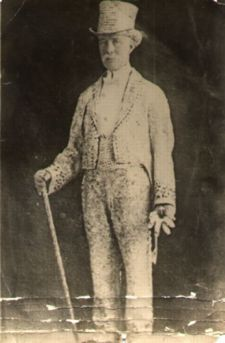 Photograph of Henry Croft (1861 - 1930)